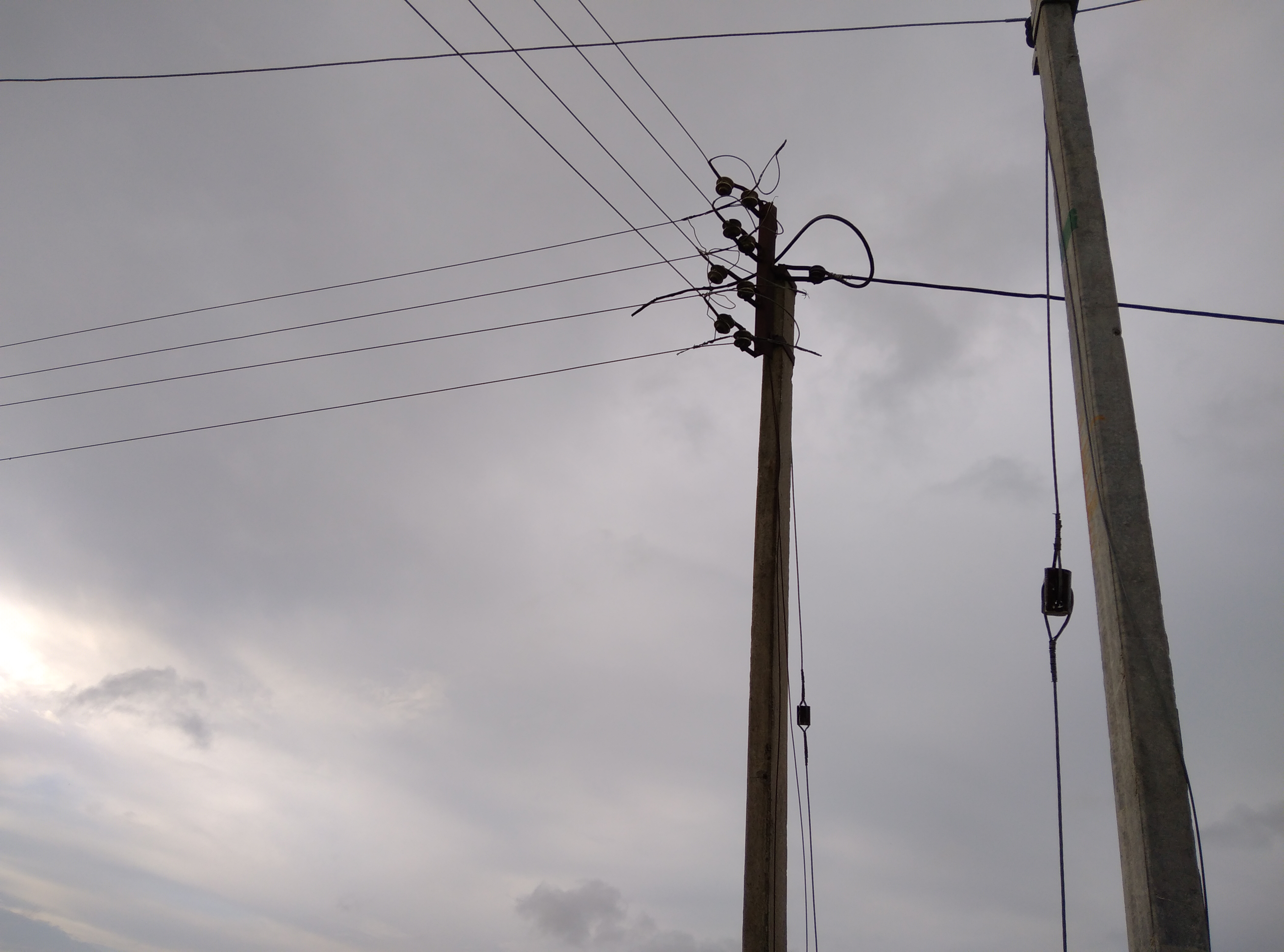 Three-phase electric power line